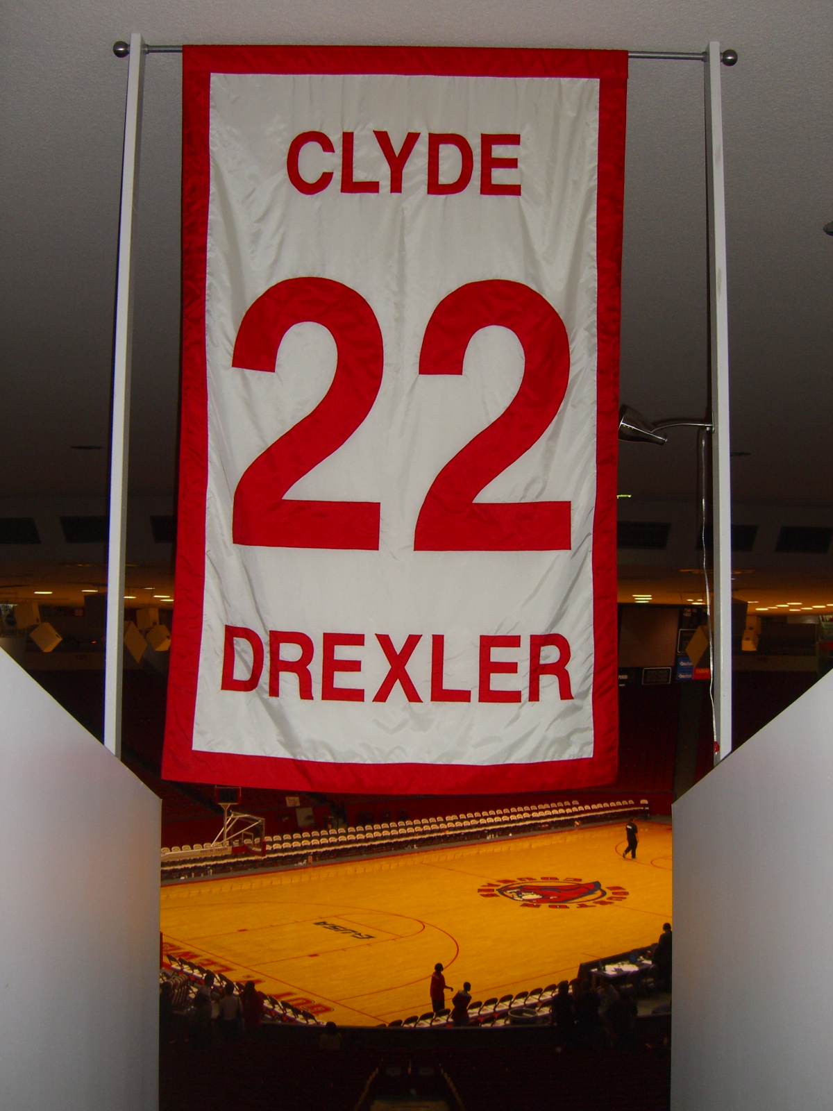 Clyde Drexler's retired number at the University of Houston in Hofheinz Pavilion.